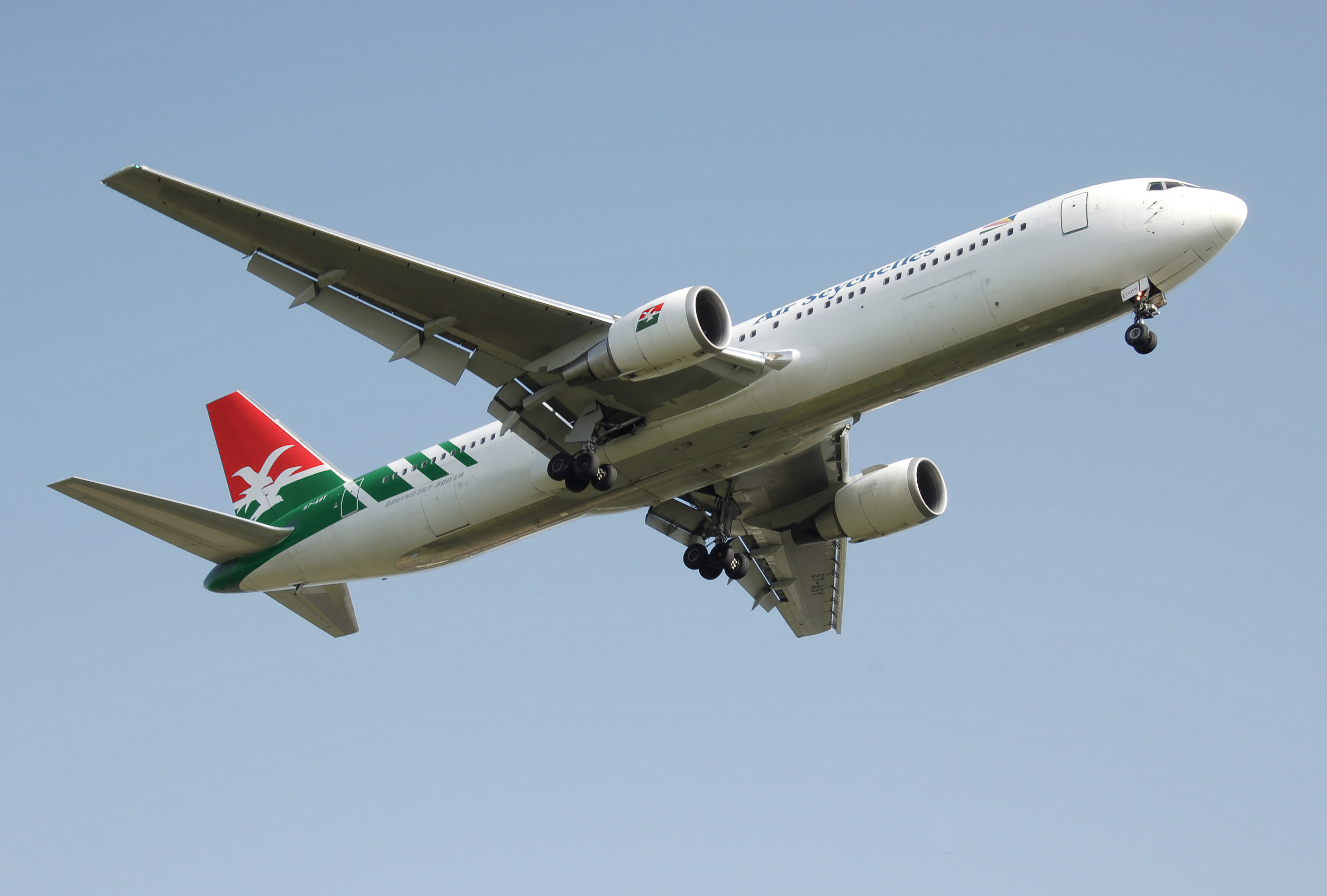 Air Seychelles Boeing 767-300ER (S7-ASY) takes off from London Heathrow Airport, England.